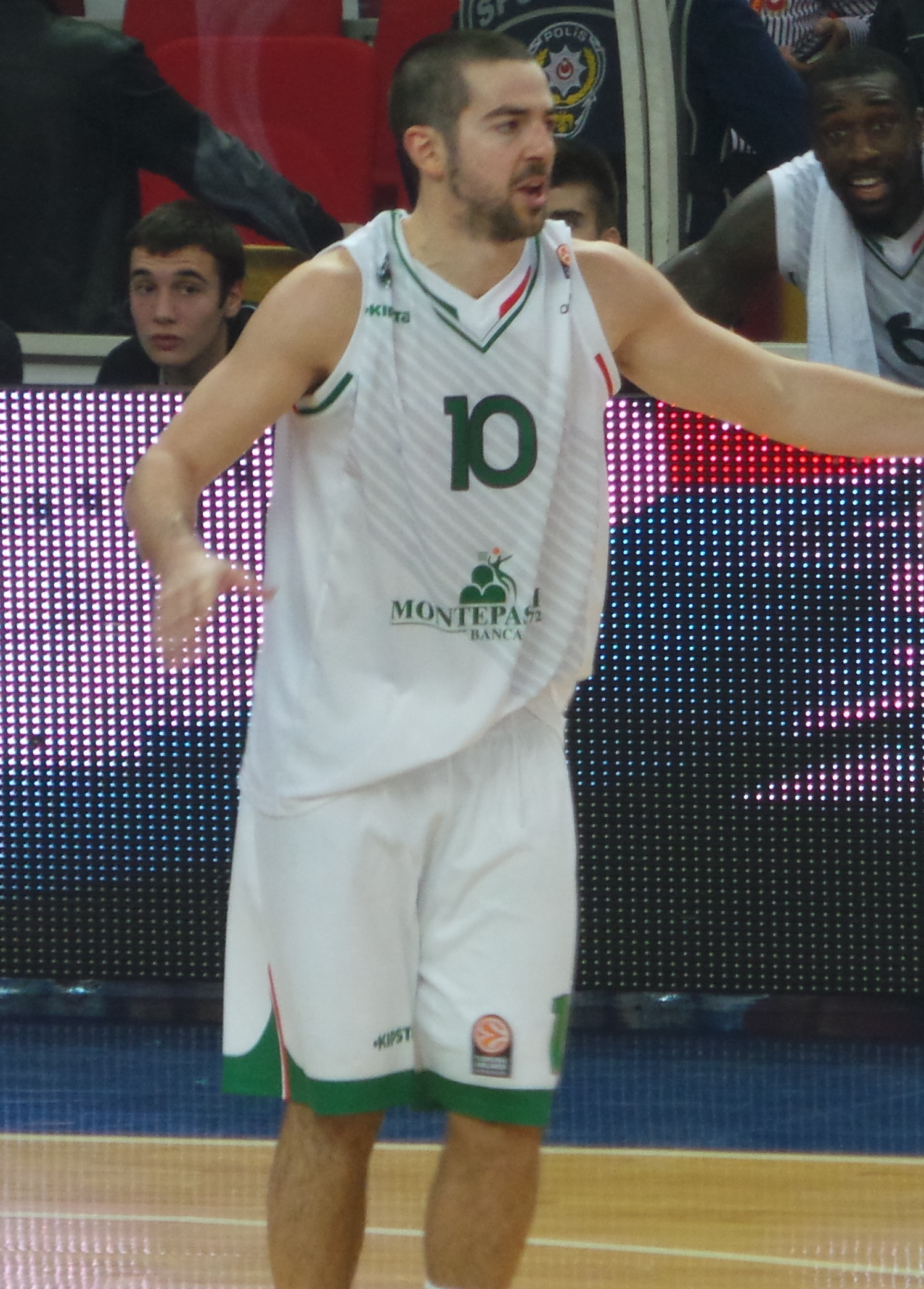 Taylor Rochestie